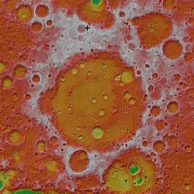 Korolev crater (LROC image) cross indicates highest point on the Moon (10.786 mts) coordinates 5.4°N 201.4°E